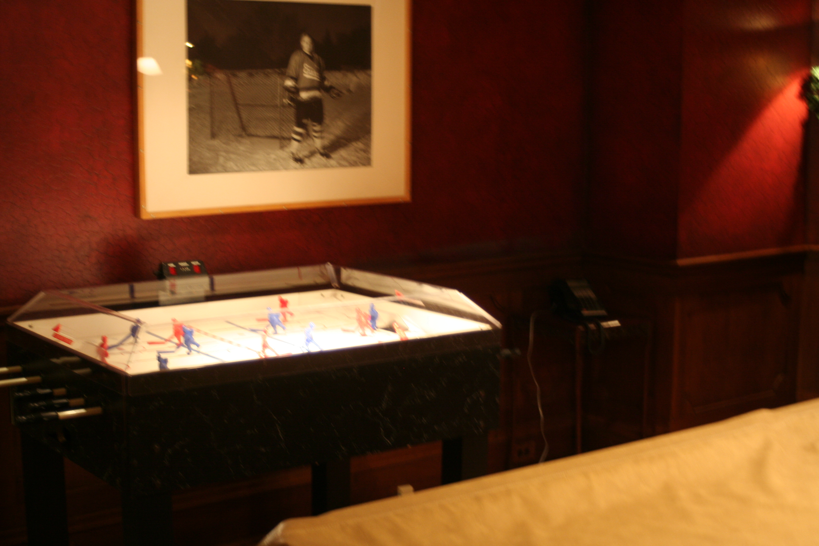 Minnesota Governor's Residence, basement. Hockey table game next to pool table.